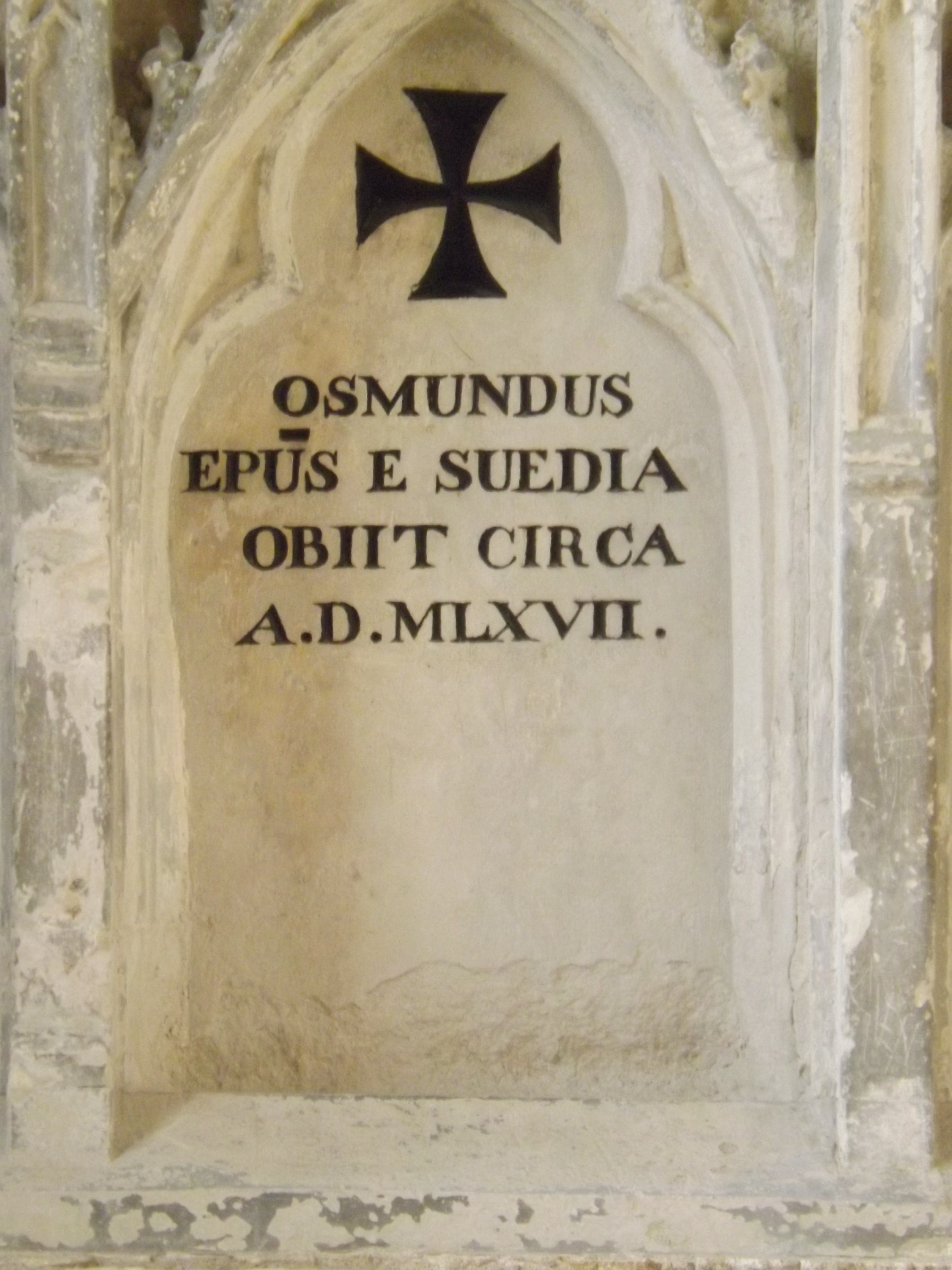 Bishop Osmund's commemorative inscription in the memorial to the Seven Confessors of Ely in Bishop West's Chapel, Ely Cathedral.